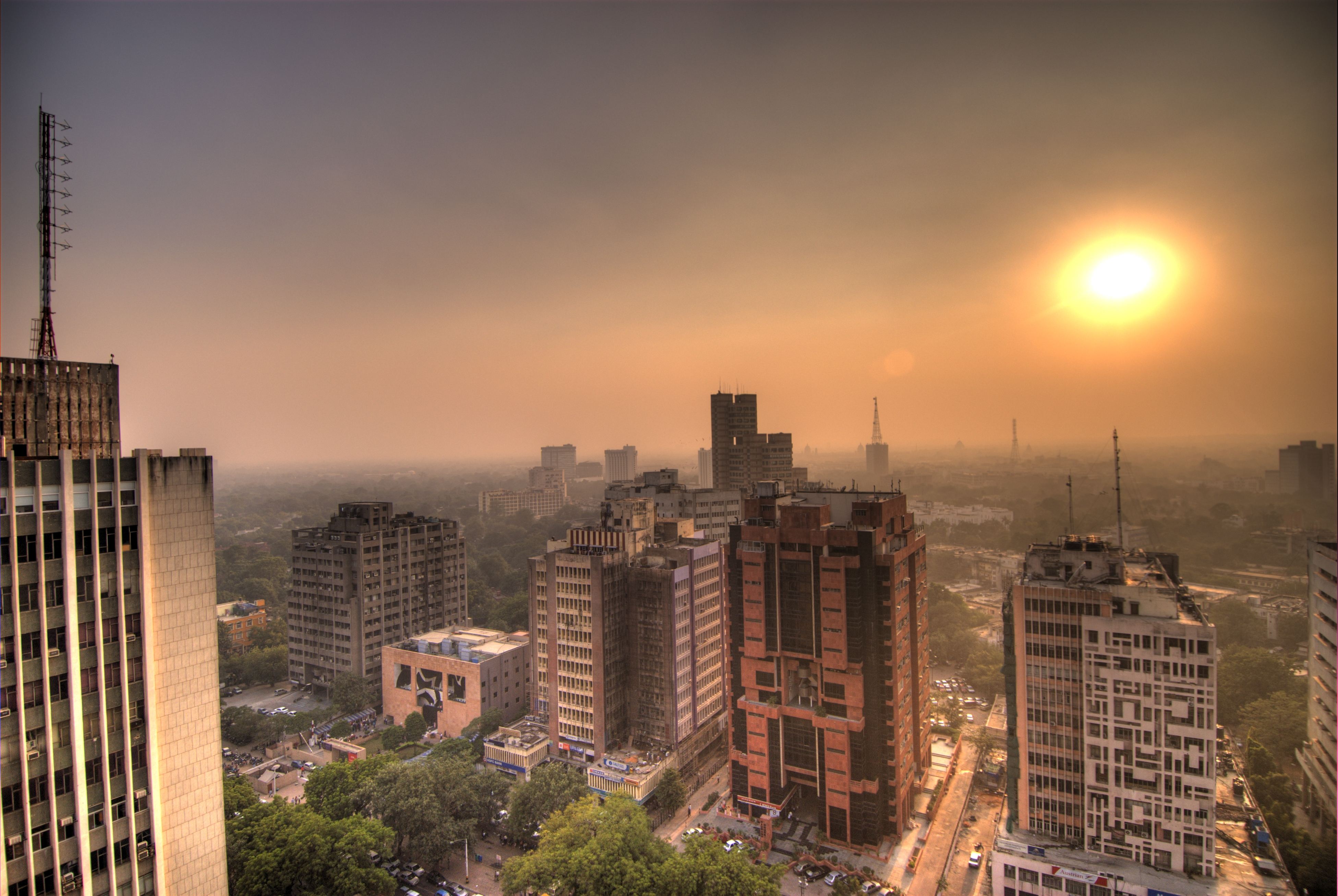 Sun setting at Connaught Place in Delhi. The air was so full of smog particles that the sun often disappeared completely into the fog. View from the revolving Parikrama rooftop restaurant. November 2006.